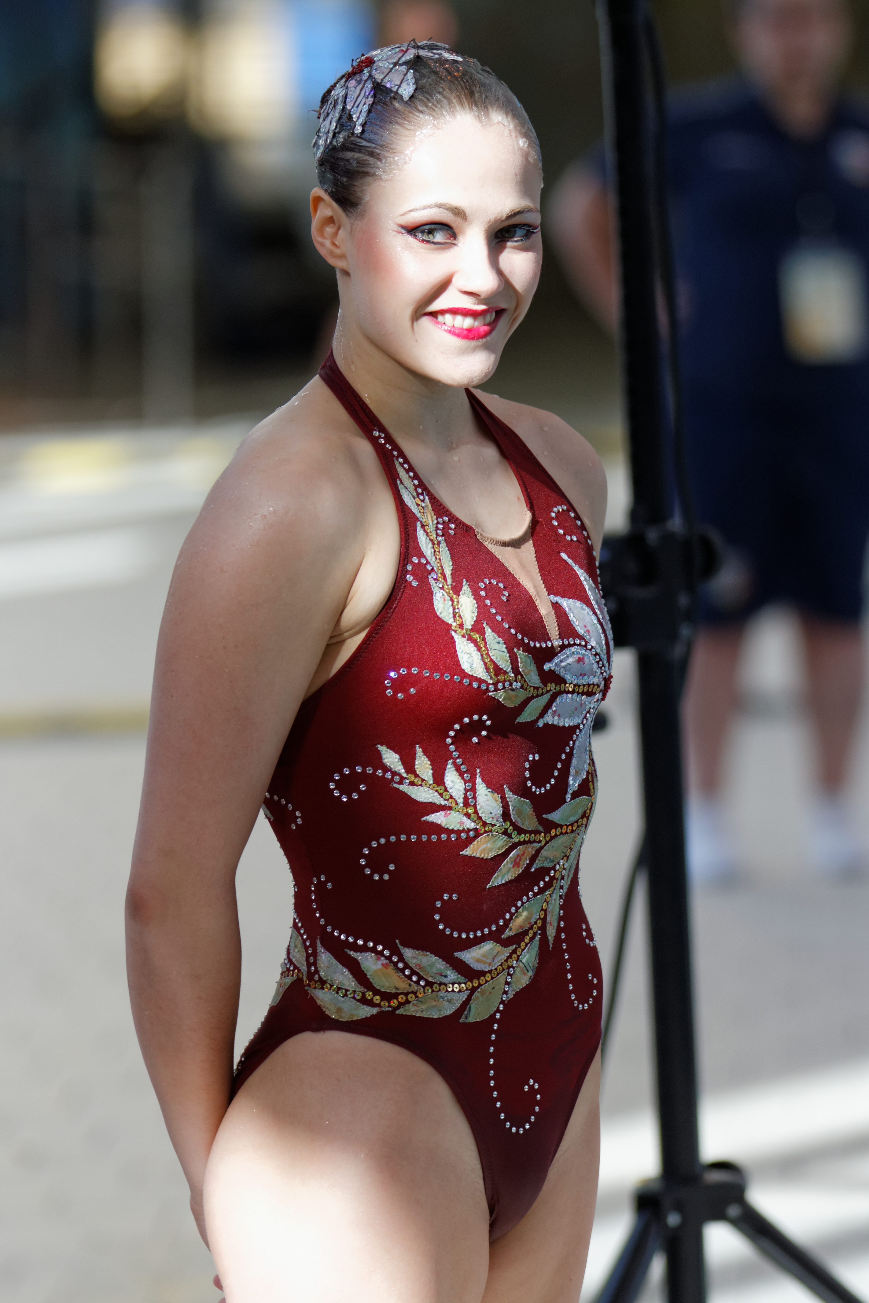 The Swedish synchronized swimmer Malin Gerdin during the technical solo routine at the French Open in Montreuil, March 15, 2013.